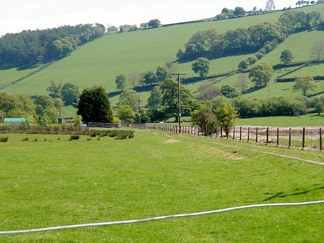 Van Railway Track bed, near to Y Fan, Powys, Great Britain. The track bed can be seen alongside the fence. The railway ran from Van to Caersws, its main purpose being to service the lead mine near here. The mine closed in the 1920's and presumably so did the railway.